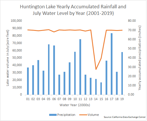 Graph of Huntington Lake's (CA) yearly accumulated rainfall and July water level by water year, from 2001-2019. Depicts the effects of the 2012-2015 North American drought. Data from California Data Exchange Center.